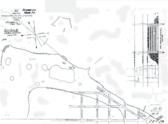 A sketch showing the extent of the damage by the 1846 hurricane to the western end of Key West, Florida.